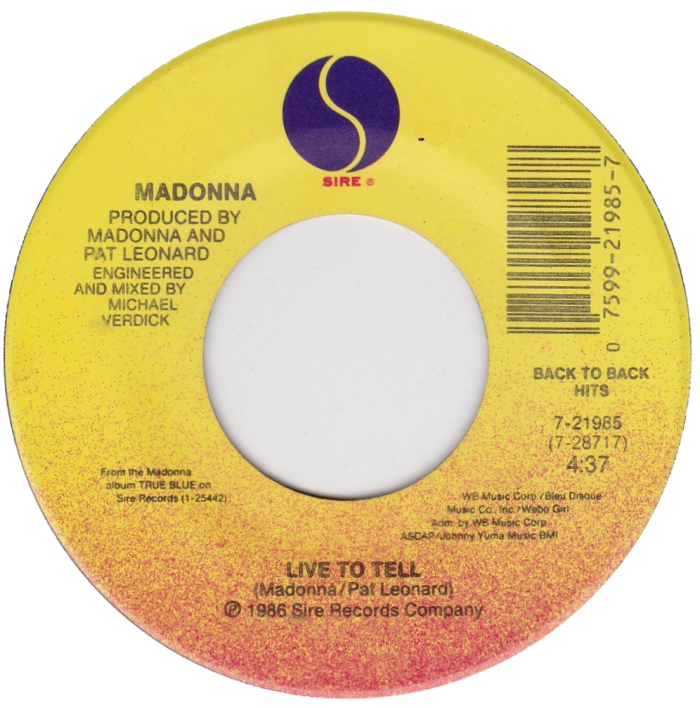 A label of U.S. vinyl release of "Live to Tell" by Madonna